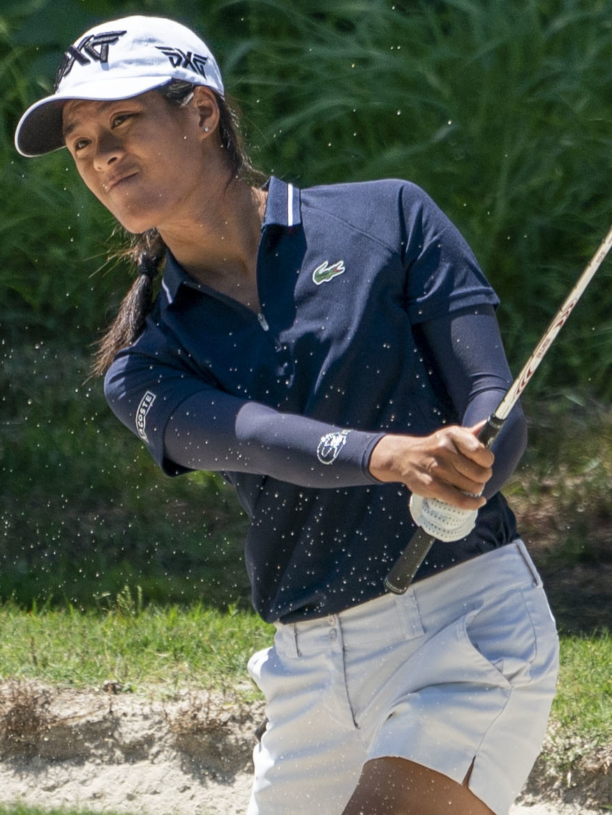 Pure Silk Championship 2019